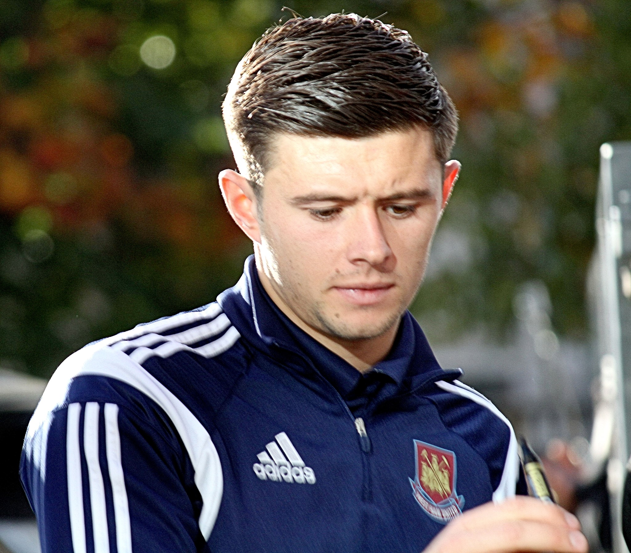 West Ham United's Aaron Cresswell Signing Autographs post the football match v Manchester City at the Boleyn Ground, Upton Park 25Oct14